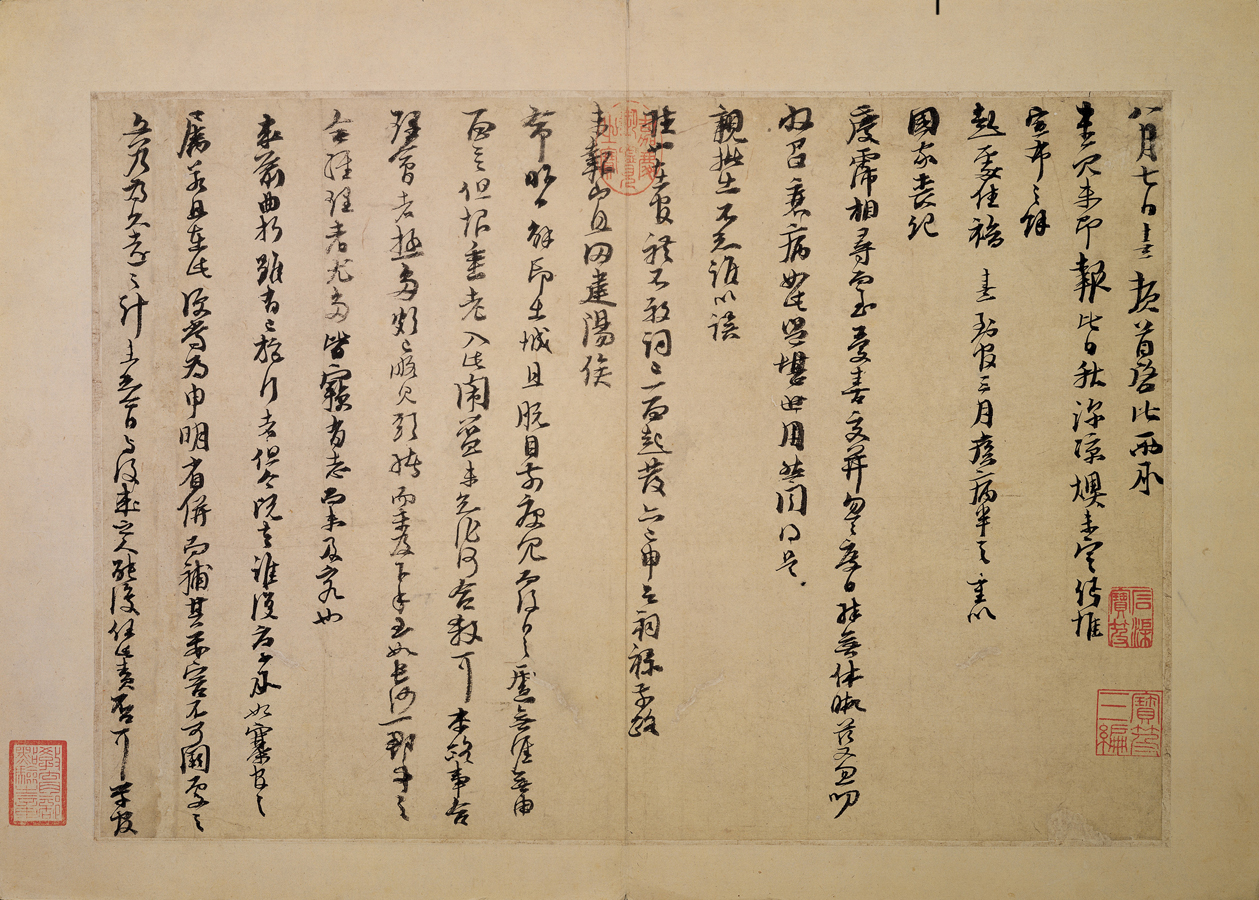 “Zhu wrote this letter in the eighth lunar month of the Shaoxi fifth year (1194) after leaving his post as Administrator of Tanzhou (modern Changsha, Hunan) and on his way back to the capital. In it, he mentions the government affairs to be addressed in Tanzhou. Near the beginning of the letter, he relates the sad news of "national mourning," referring to the death of Retired Emperor Xiaozong in the sixth month of that year. However, in the following month, after Emperor Guangzong abdicated in favor of Ningzong, Zhu Xi had the opportunity to go to court and serve as an Instructor, bringing him joy as well.” —National Palace Museum